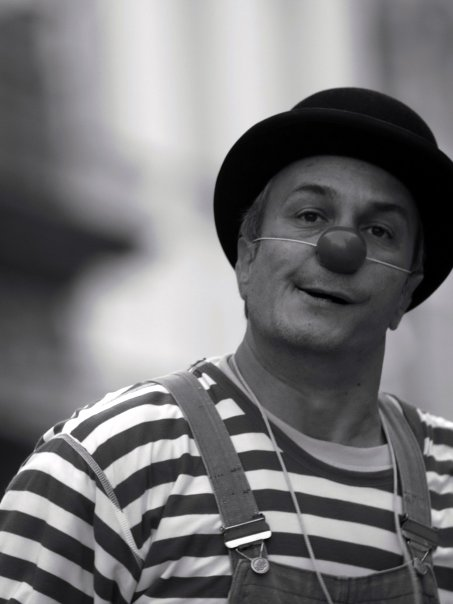 This is Kenny the clown looking angry at someone.